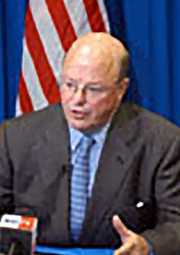 Ambassador Frank G. Wisner, U.S. Special Representative to the Kosovo Status Talks